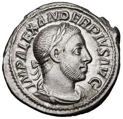 Denarius of Severus Alexander